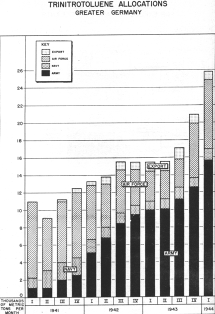 Table of allocation of German TNT production by military branch between 1941 and the first quarter of 1944, in thousands of tons per month. Taken from The U.S. Strategic Bombing Survey: European Theater of Operations.